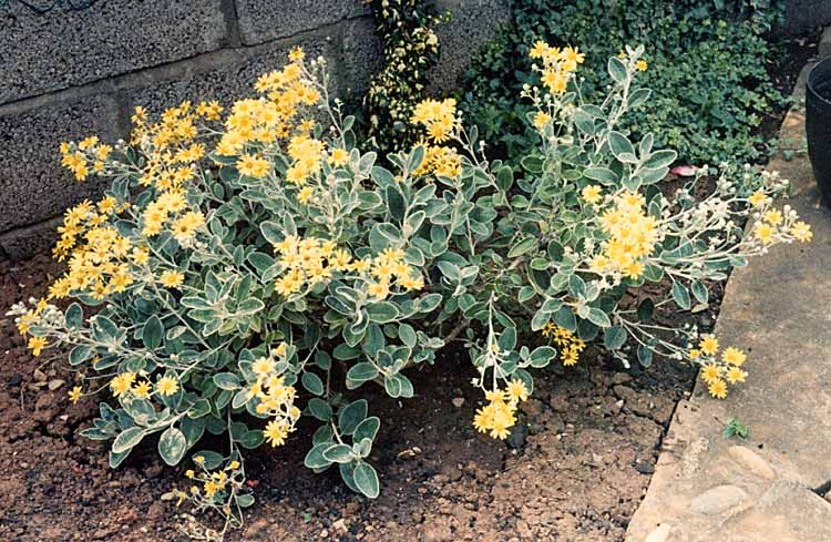 Senecio Greyii shrub, about 0.8 metres (2.5 feet) across, growing in England.